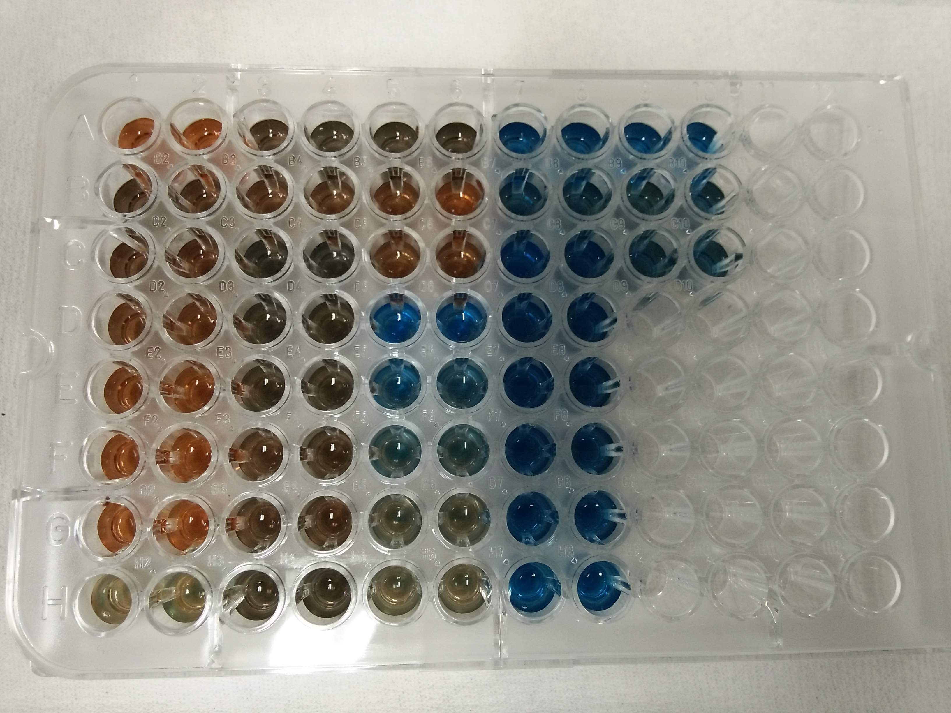 BSA protein reacts with Bradford reagent result in blue color